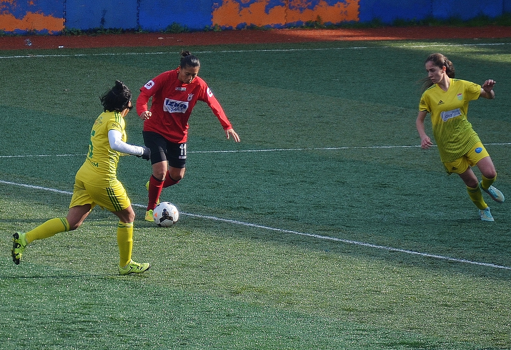 Yonca şentürk playing for Konak Belediyespor in the 2015-16 season